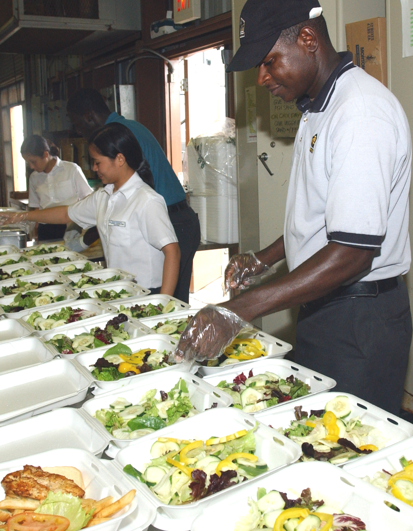 Contracted food service workers prepare meals for detainees at the U.S. detention facility in Guantanamo Bay, Cuba.